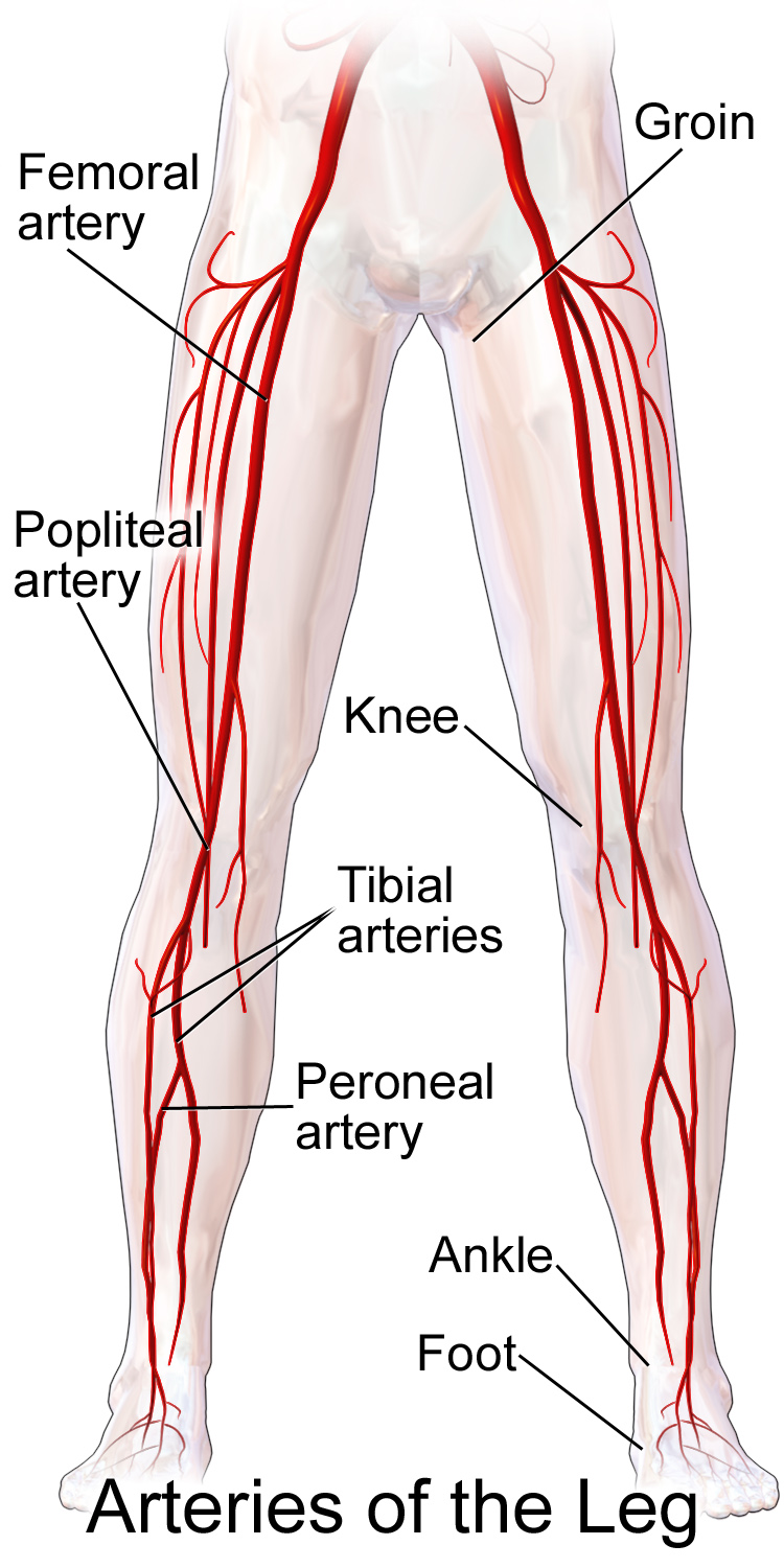 Arteries of the Leg. See a related animation of this medical topic.